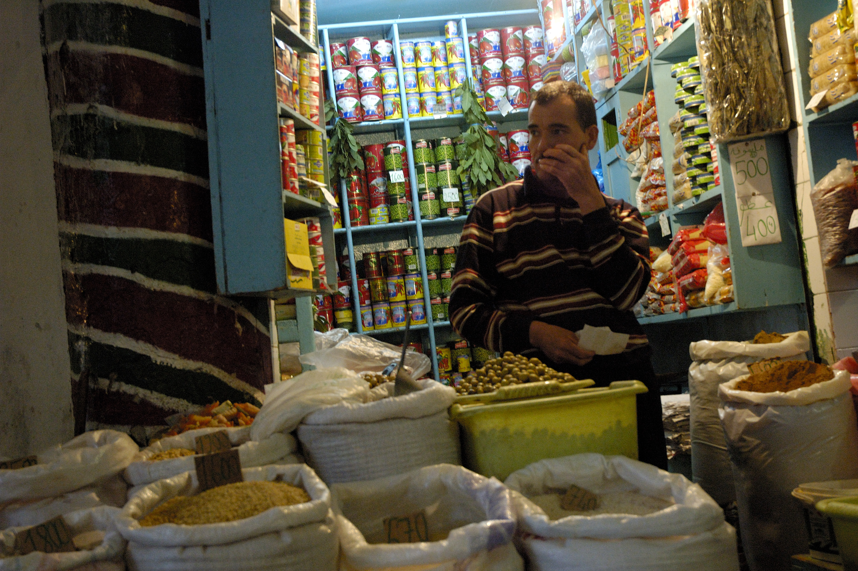 Souk seller in Tunis, Tunisia